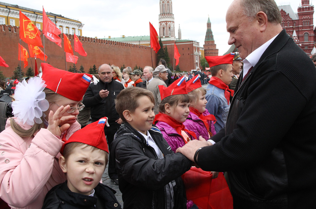 “Young Pioneer induction ceremony held on Moscow's Red Square”. Leader of the Communist Party Gennady Zyuganov and participants of the Young Pioneer induction ceremony on Moscow's Red Square.